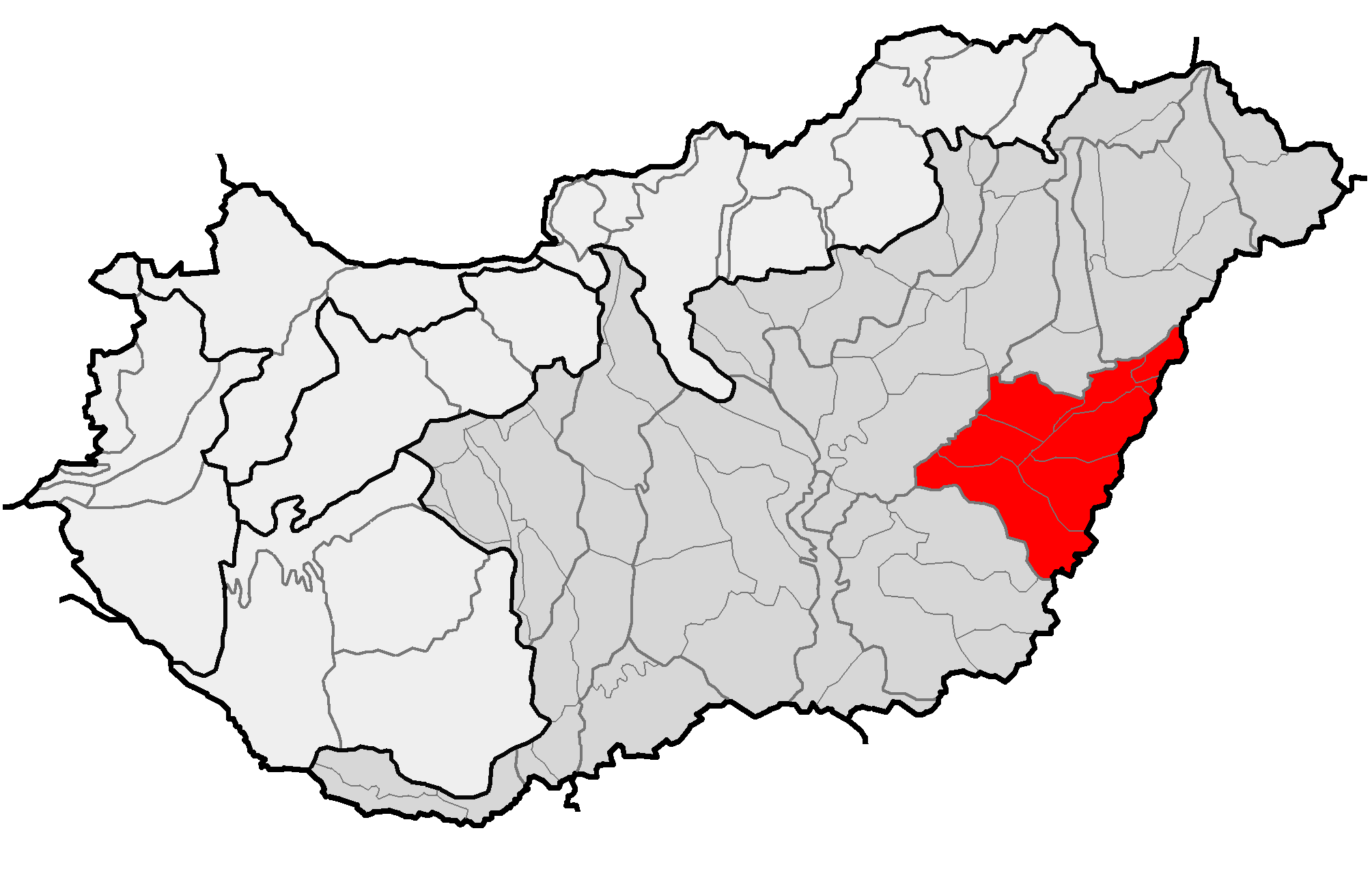 Location of geographical mesoregion of Berettyó–Körös-vidék (red) and macroregion of Alföld (gray) within subdivisions of Hungary.